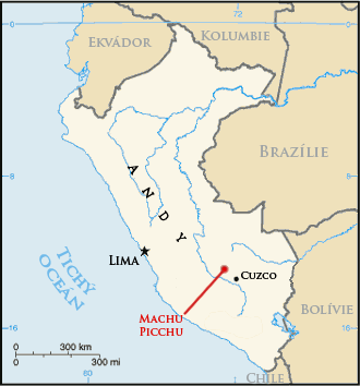 Machu Picchu locator in Czech language